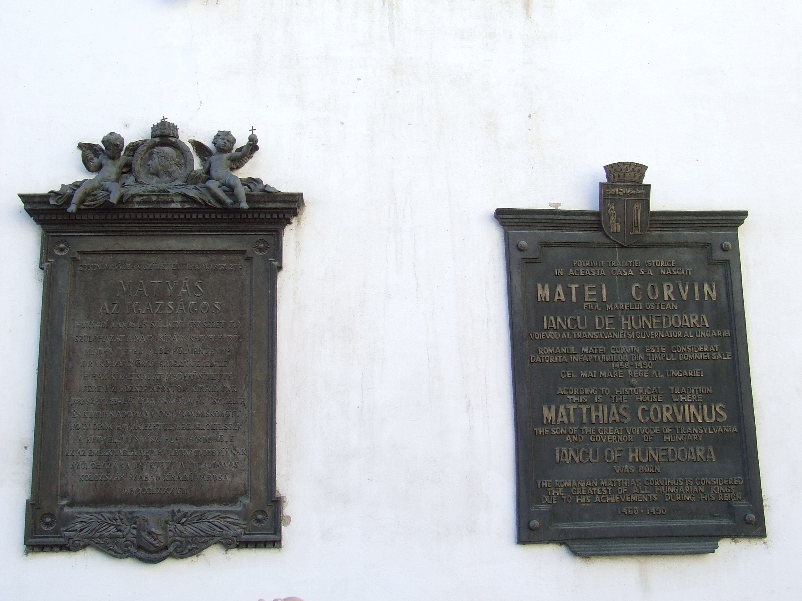 Cluj-Napoca, memorials on the wall of Matthias Corvinus's birth house. According to Romanian ang English text, he was Romanian. In the Hungarian history, he is claimed the greatest Hungarian king.